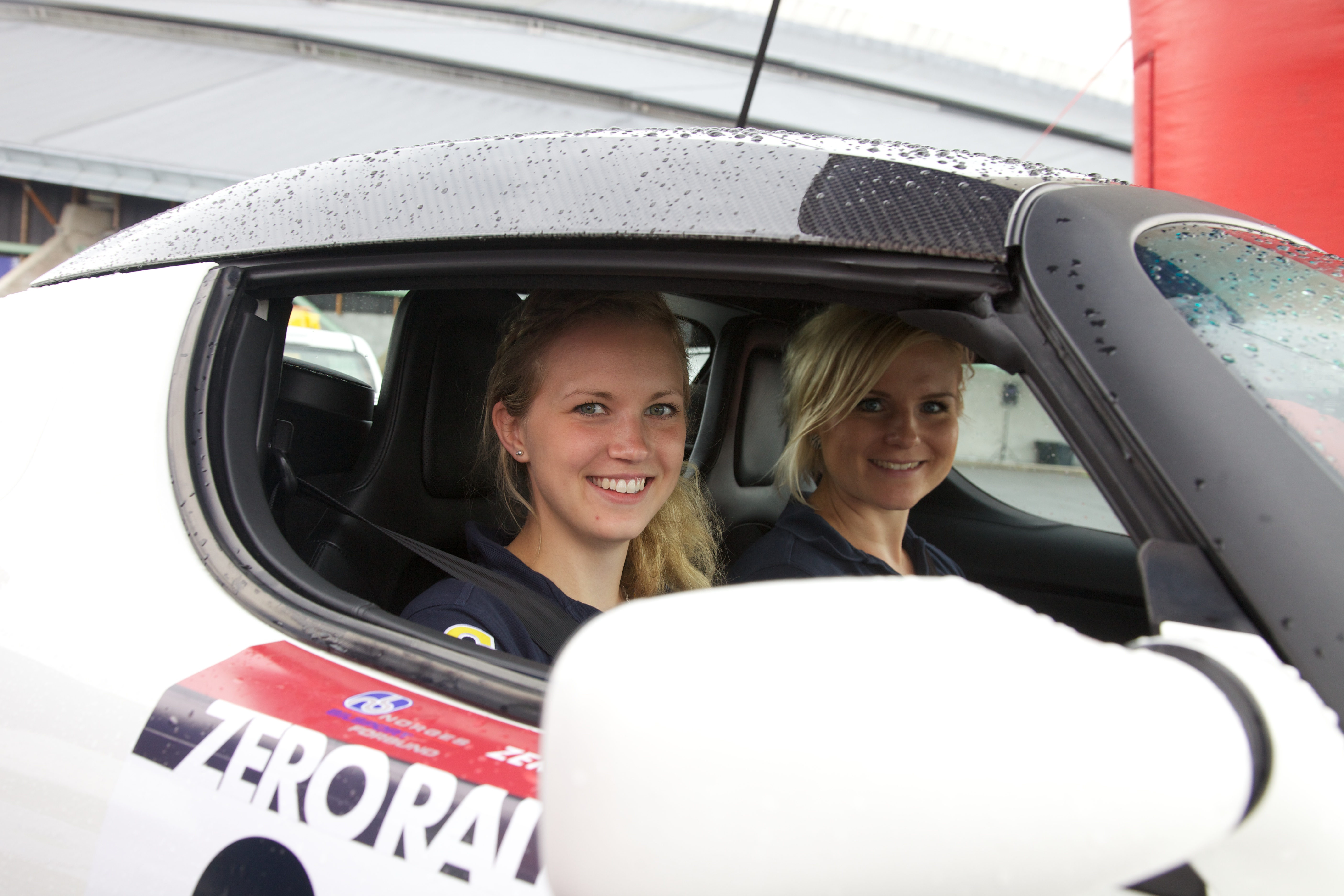 Ramona Karlsson (right) and Miriam Walfridsson at the Zero Rally in 2011 (foto 2)